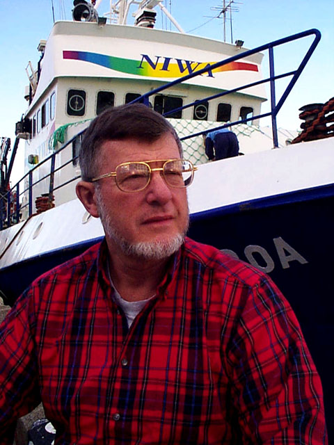 Photo from In Search of Giant Squid - 1999 Expedition Journals, Smithsonian Institution.